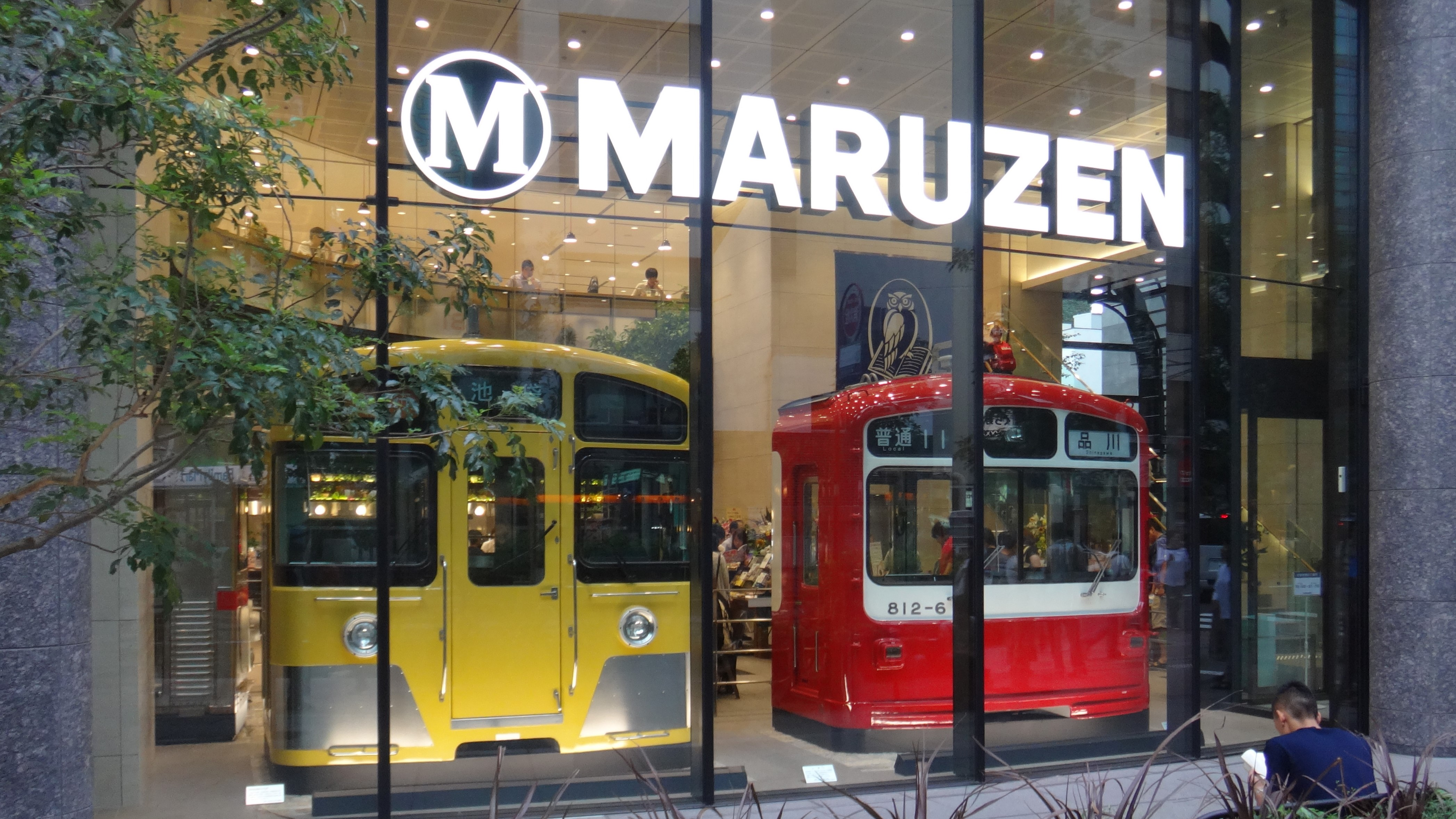 The cab ends of former Seibu Railway 2000 series EMU car 2098 (left) and Keikyu 800 series EMU car 812-6 (right) inside the Maruzen store in Minami-Ikebukuro, Toshima-ku, Tokyo, Japan